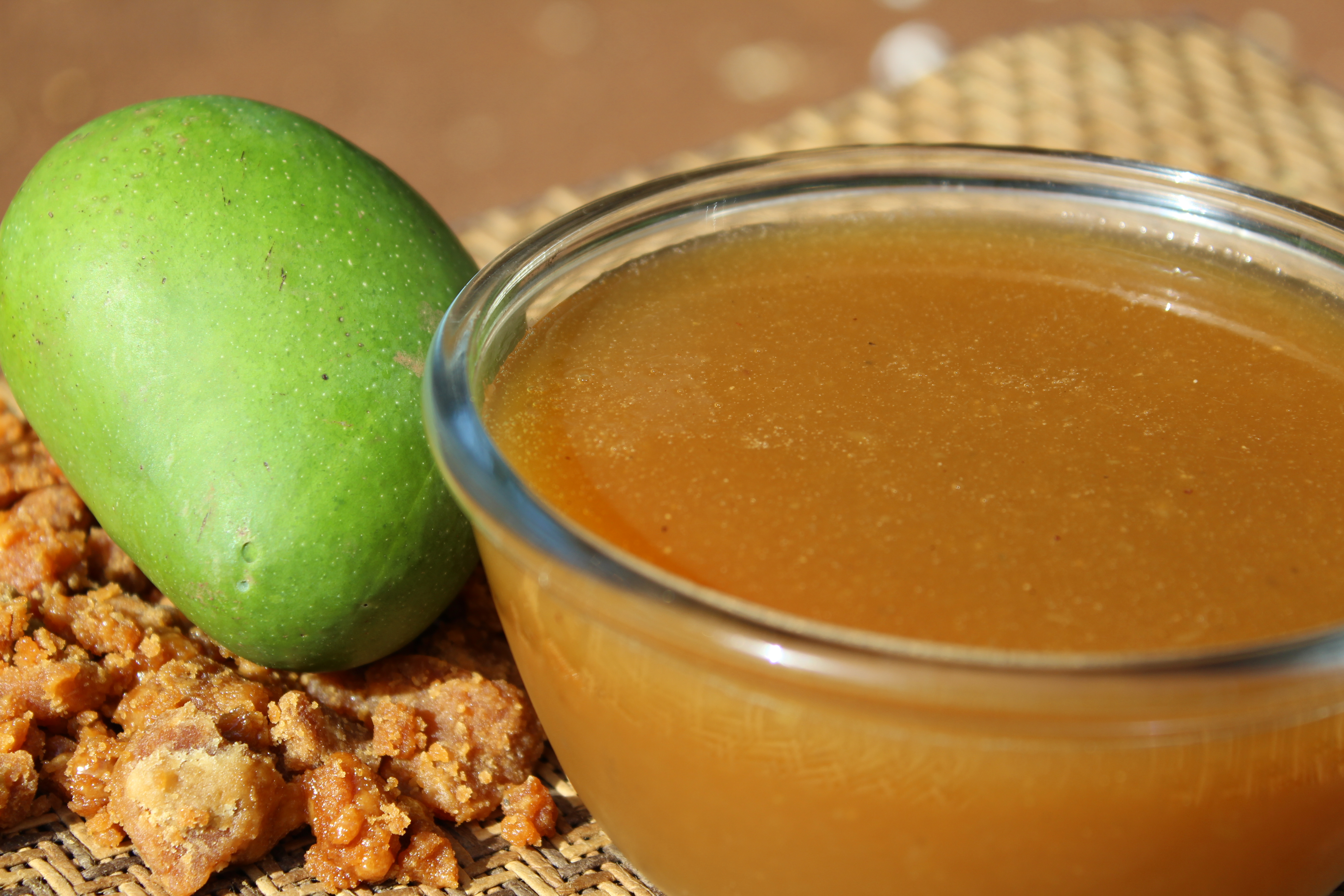 Steamed raw mango pulp mixed with jaggery, nutmeg and cardamom